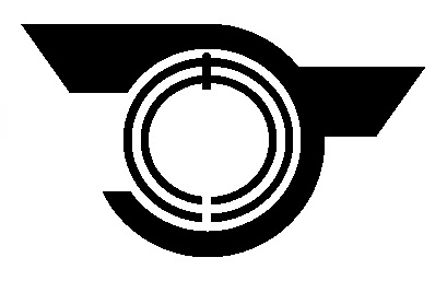 Shimoichi Nara chapter